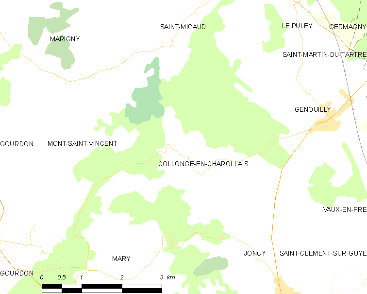 Map of French municipality